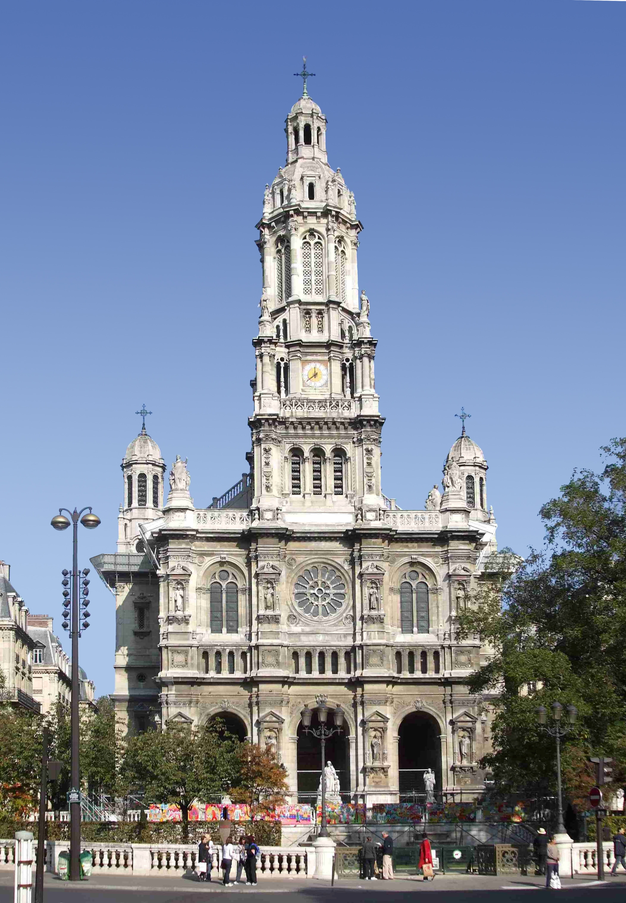 Sainte-Trinité Church in Paris, France, as seen from Chaussée d'Antin street.